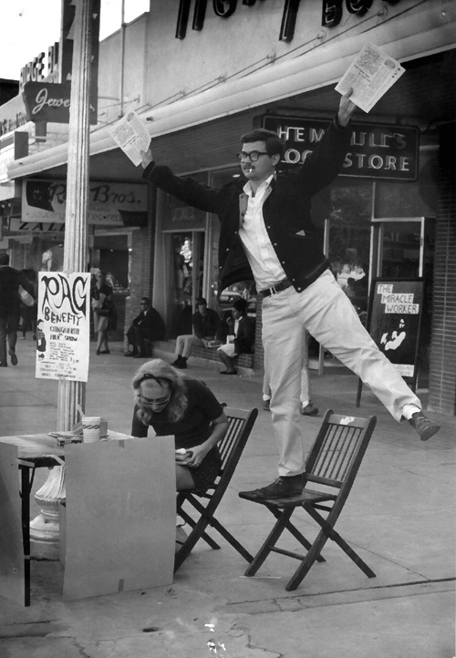 Rag staffer George Vizard selling The Rag on the drag in Austin in 1966. Seated is Mariann Vizard (now Mariann Wizard). .